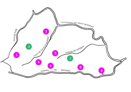 toponymie casevecchie